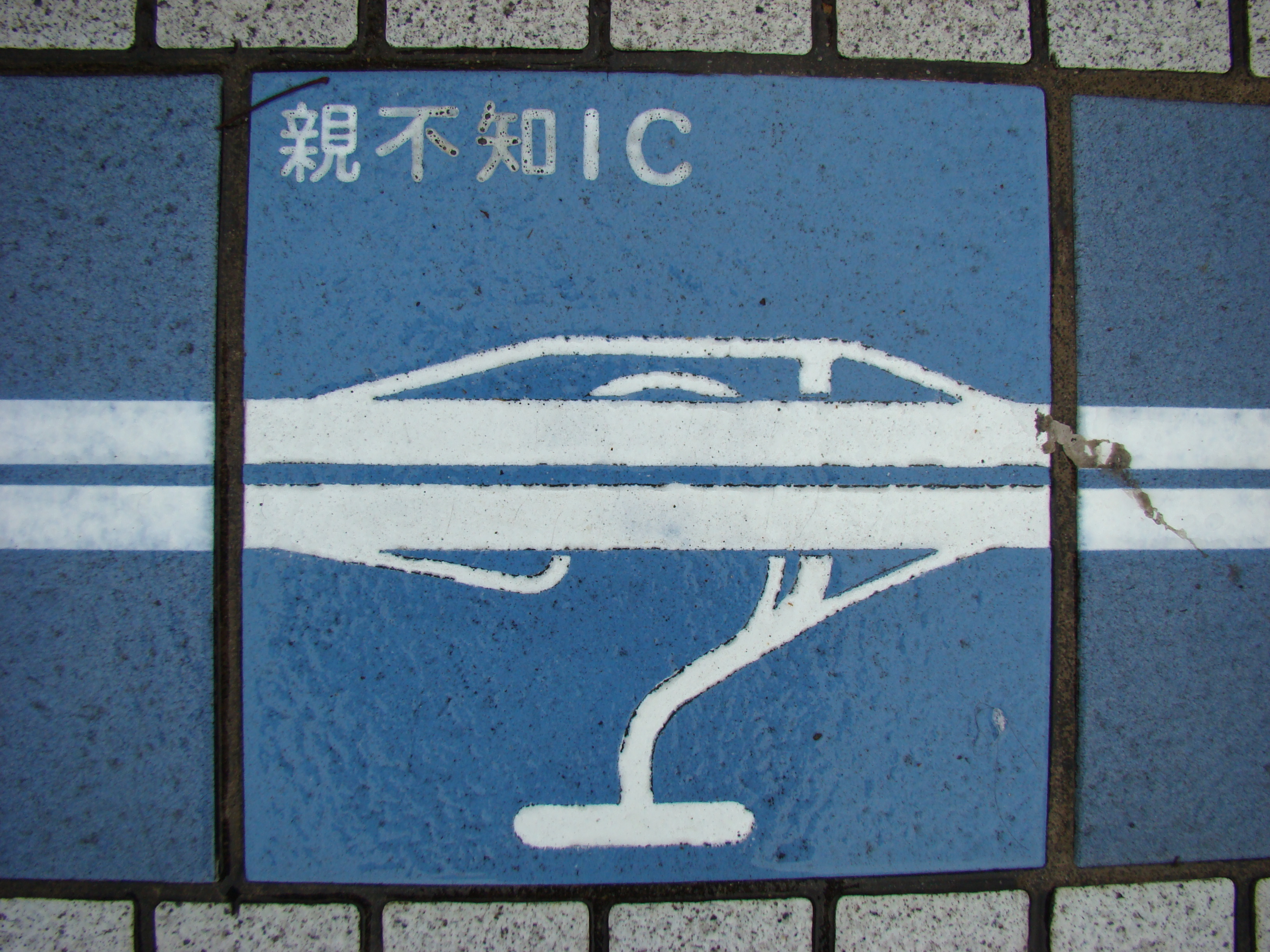 Tile which shows the shape of Oyashirazu Interchange on the Hokuriku Expressway, installed at Nadachi Tanihama Service Area in Chayagahara, Joetsu City, Niigata Prefecture, Japan